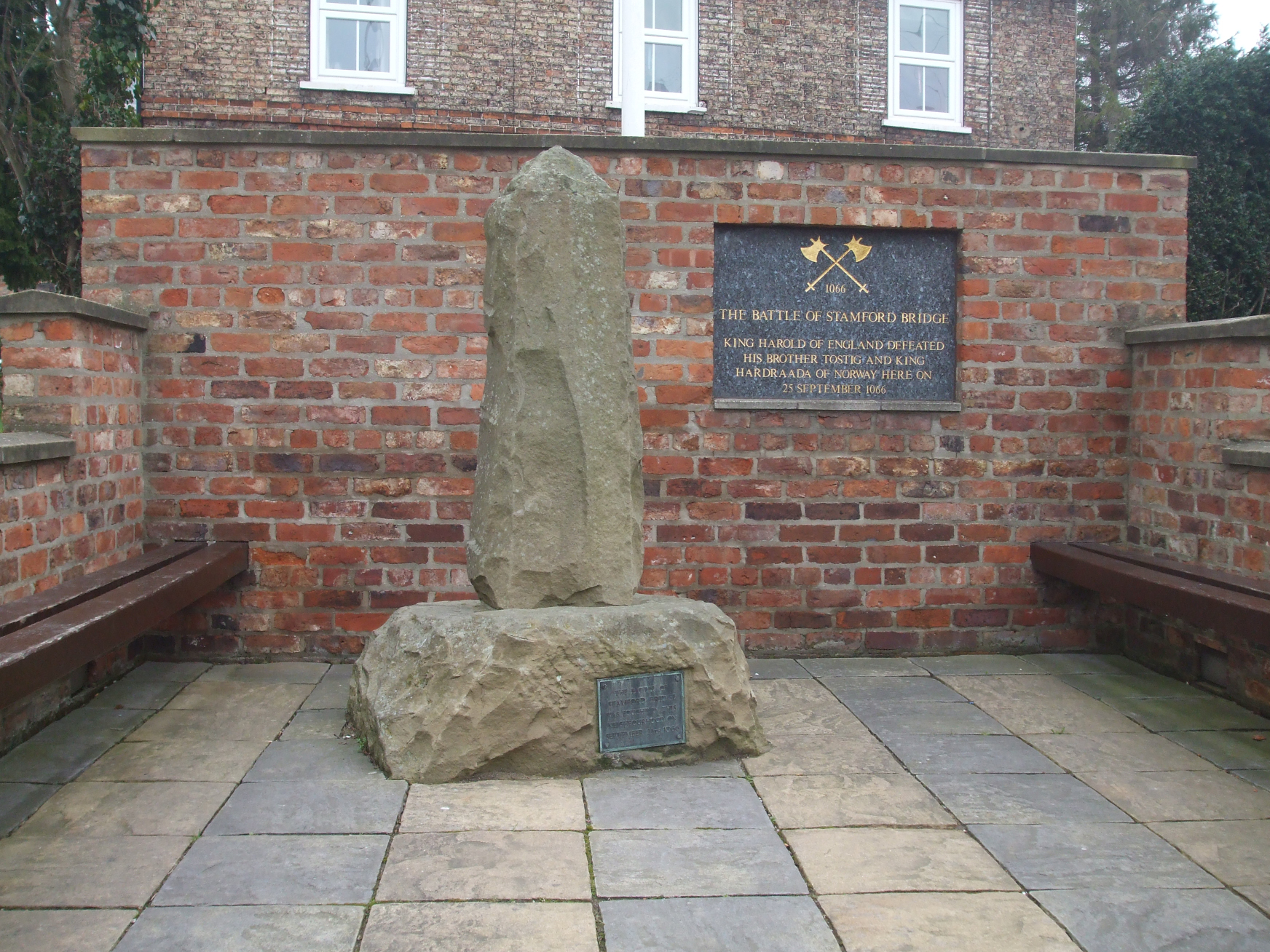 Battle of Stamford Bridge 25 September 1066, Stamford Bridge, East Riding of Yorkshire, England.This Stone was erected to remember the Battle of Stamford Bridge when "King Harold of England defeated his brother Tostig and King Hadraada of Norway on 25 September 1066".